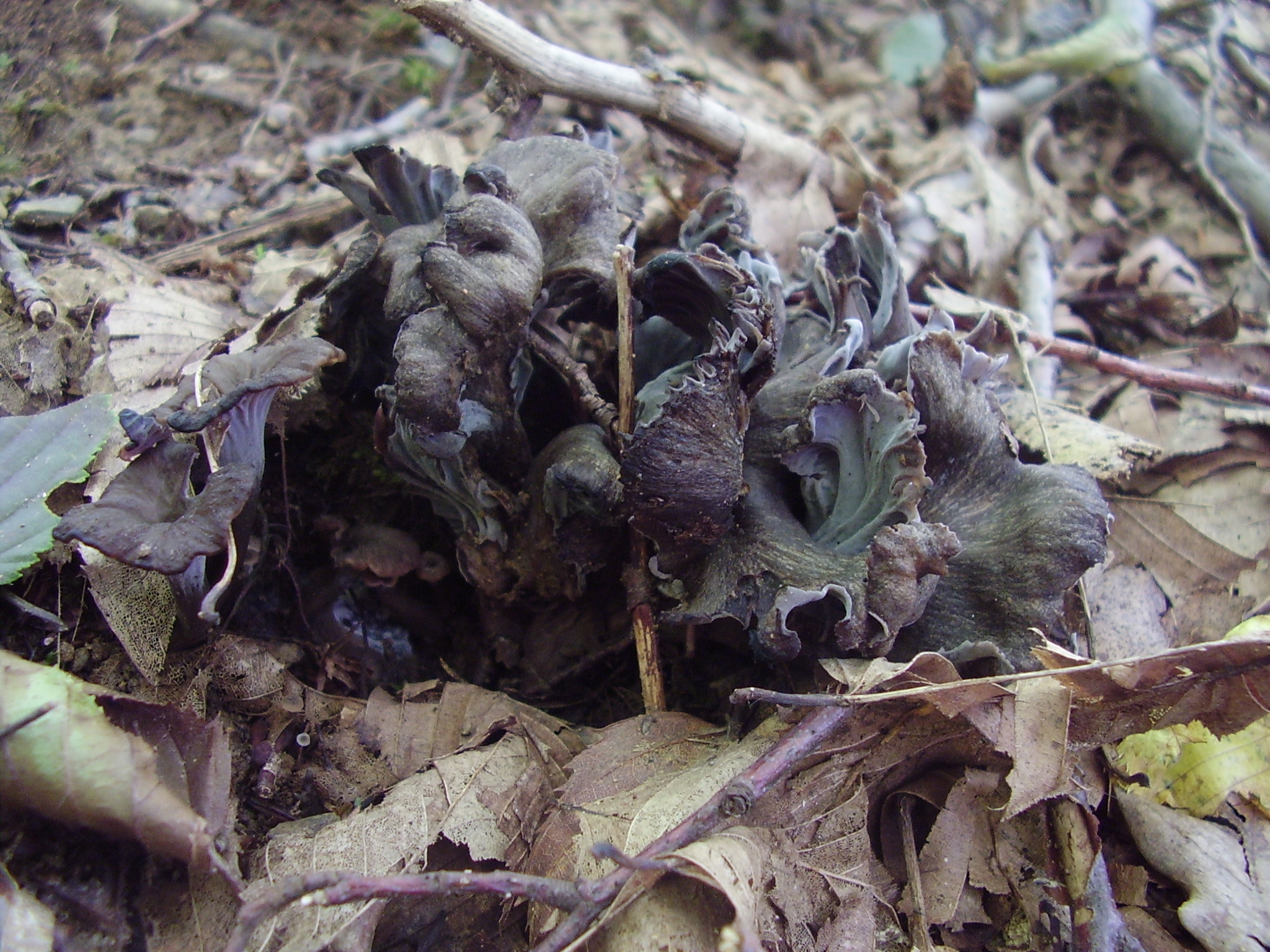 Cantharellus cinereus in deciduous forest near Sofia, Bulgaria.